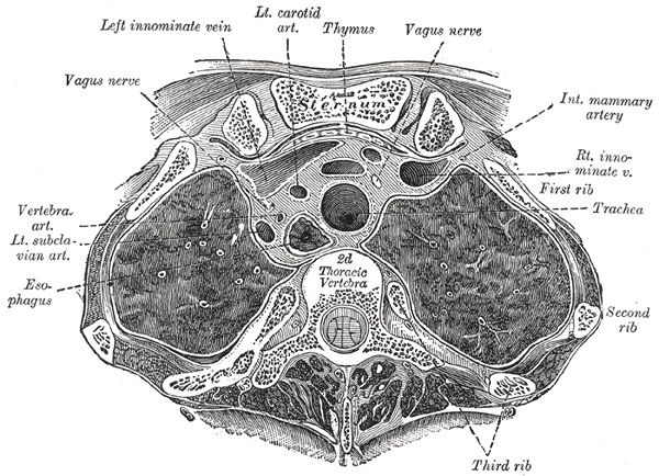 Transverse section through the upper margin of the second thoracic vertebra. (Braune.)